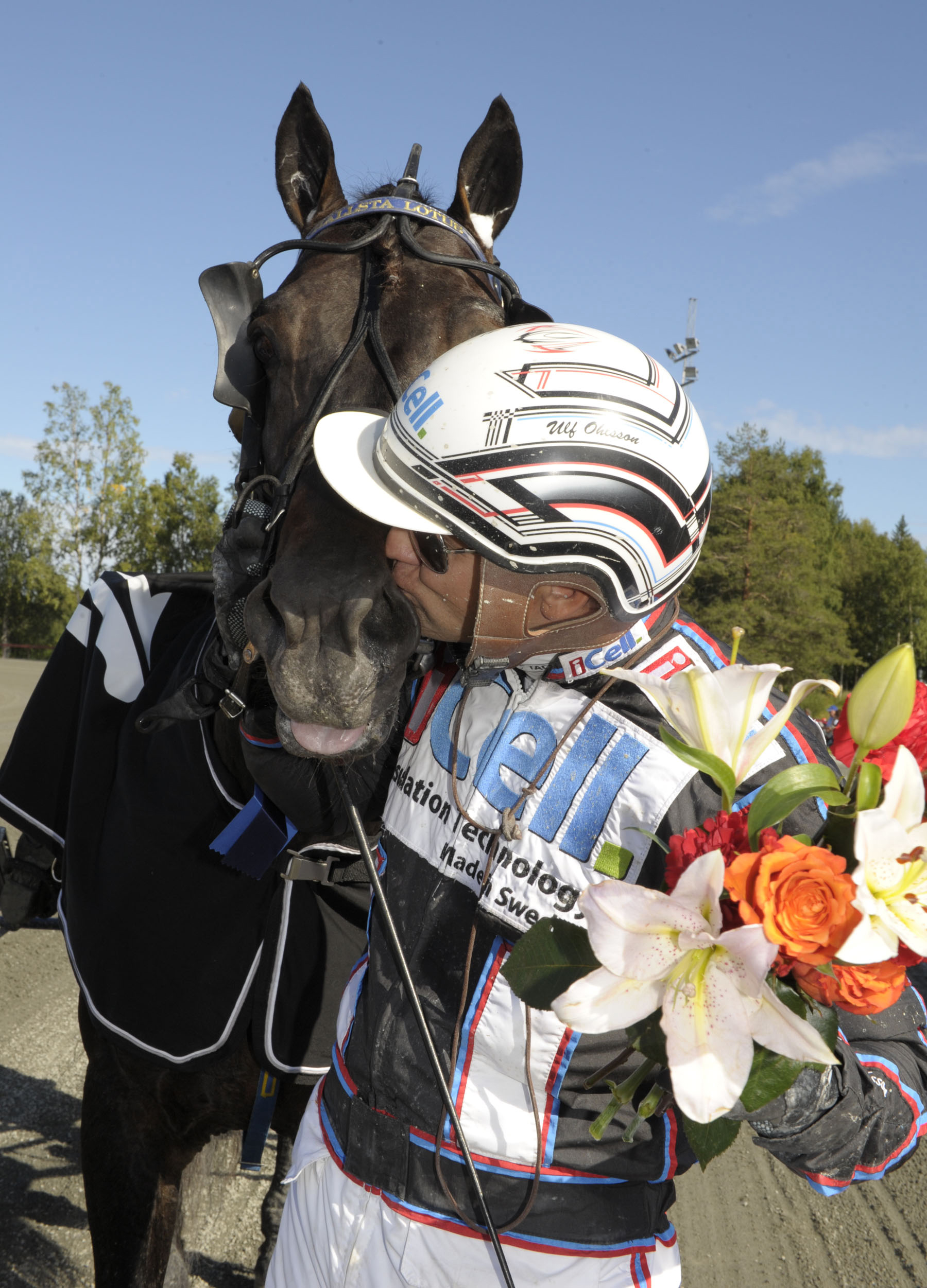 Hallsta Lotus & Ulf Ohlsson 2013-08-10